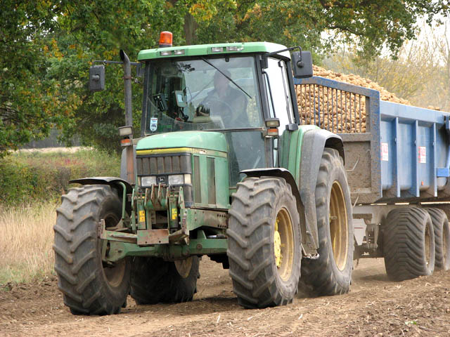 Bringing in the potatoes – a John Deere tractor with trailer; South Norfolk, England; see also 1539457.